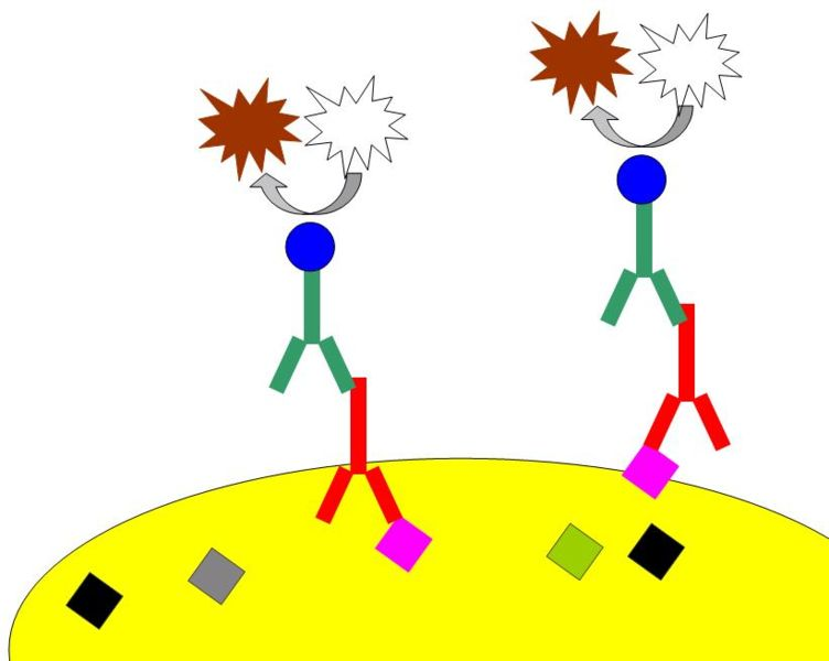 Chromogenic immunohistochemistry staining of a cell with two antibodies: A cell contains a large number of antigens. The cell is exposed to a primary antibody (red) that binds to a specific antigen (purple square). The primary antibody binds a secondary (green) antibody that is chemically coupled to an enzyme (blue). The enzyme changes the color of the substrate to a more pigmented one (brown star).